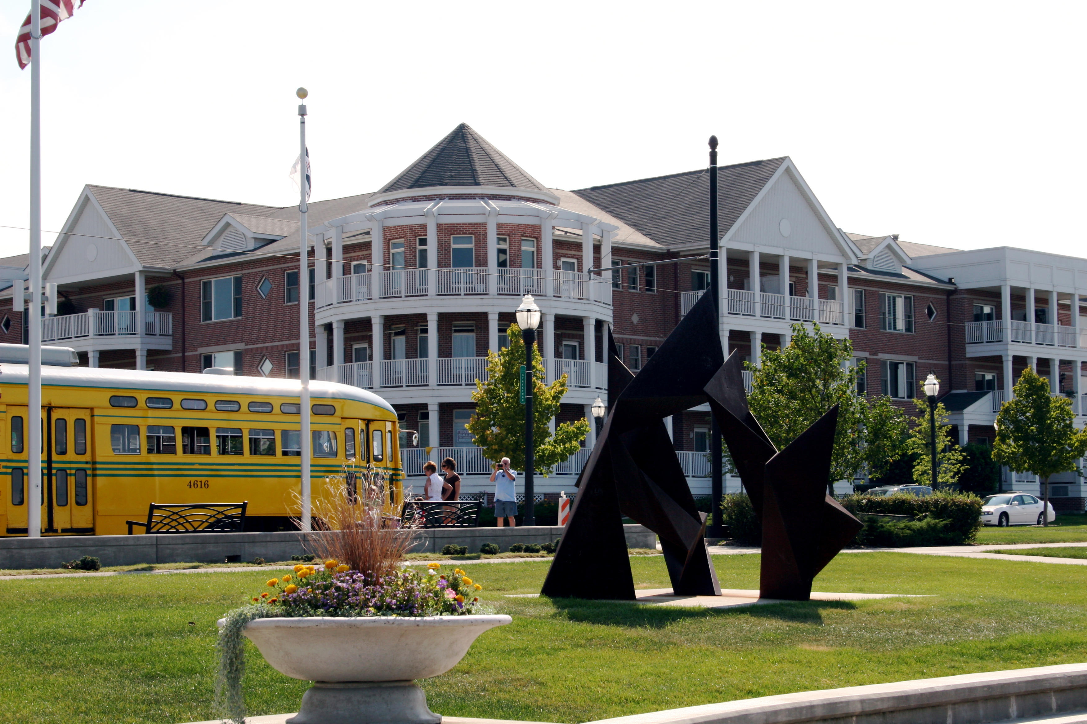 HarborPark with a streetcar, in Kenosha, Wisconsin, United States.